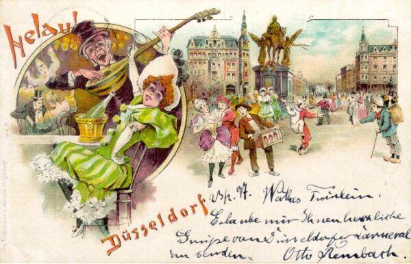 t